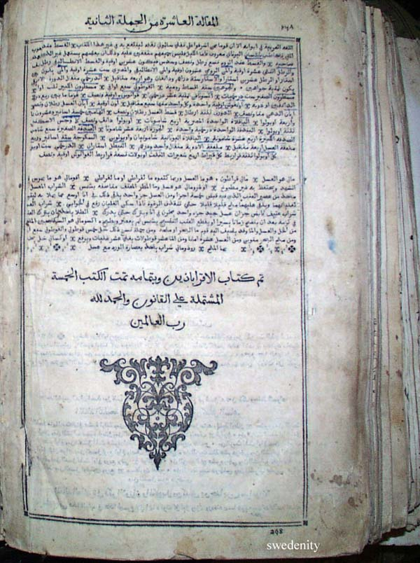 A photo of Avicenna's Canon from a private collection.